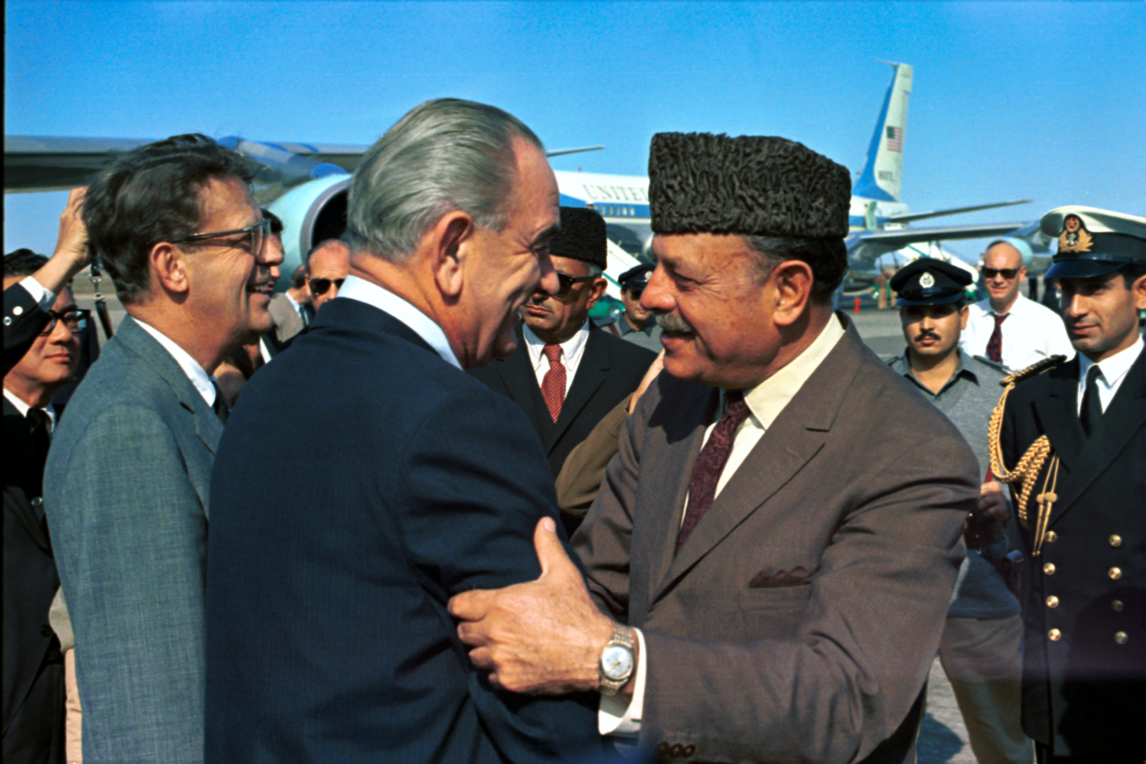 President Lyndon B. Johnson greets President Ayub Khan in Karachi, Pakistan